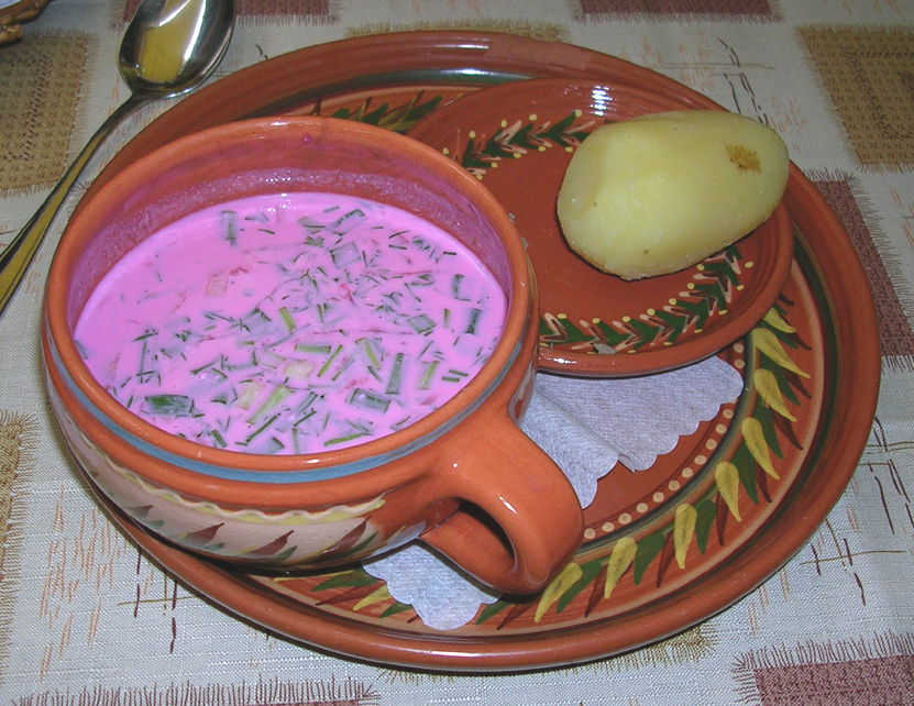 User:TreasuryTag took this photograph in a Lithuanian restaurant.